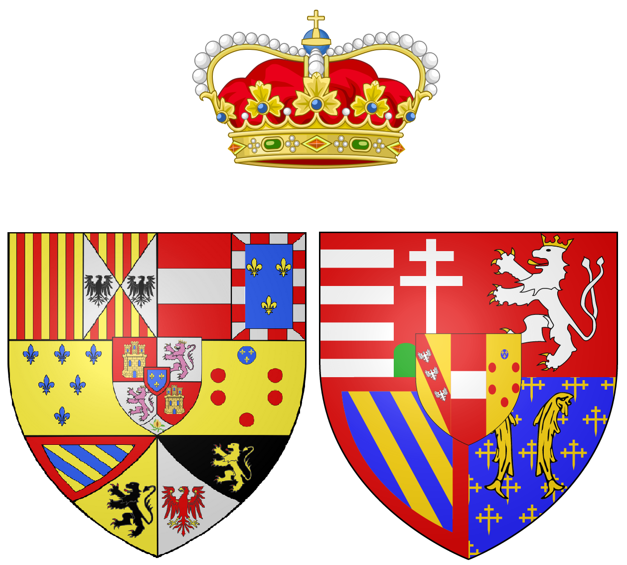 Coat of arms of Maria Clementina of Austria as Hereditary Princess of Naples